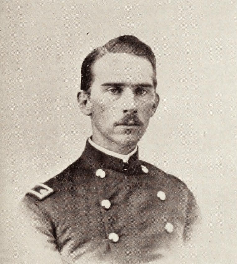 Major Oliver Bosbyshell of the 48th Pennsylvania Volunteers, later Superintendent of the Mint at Philadelphia